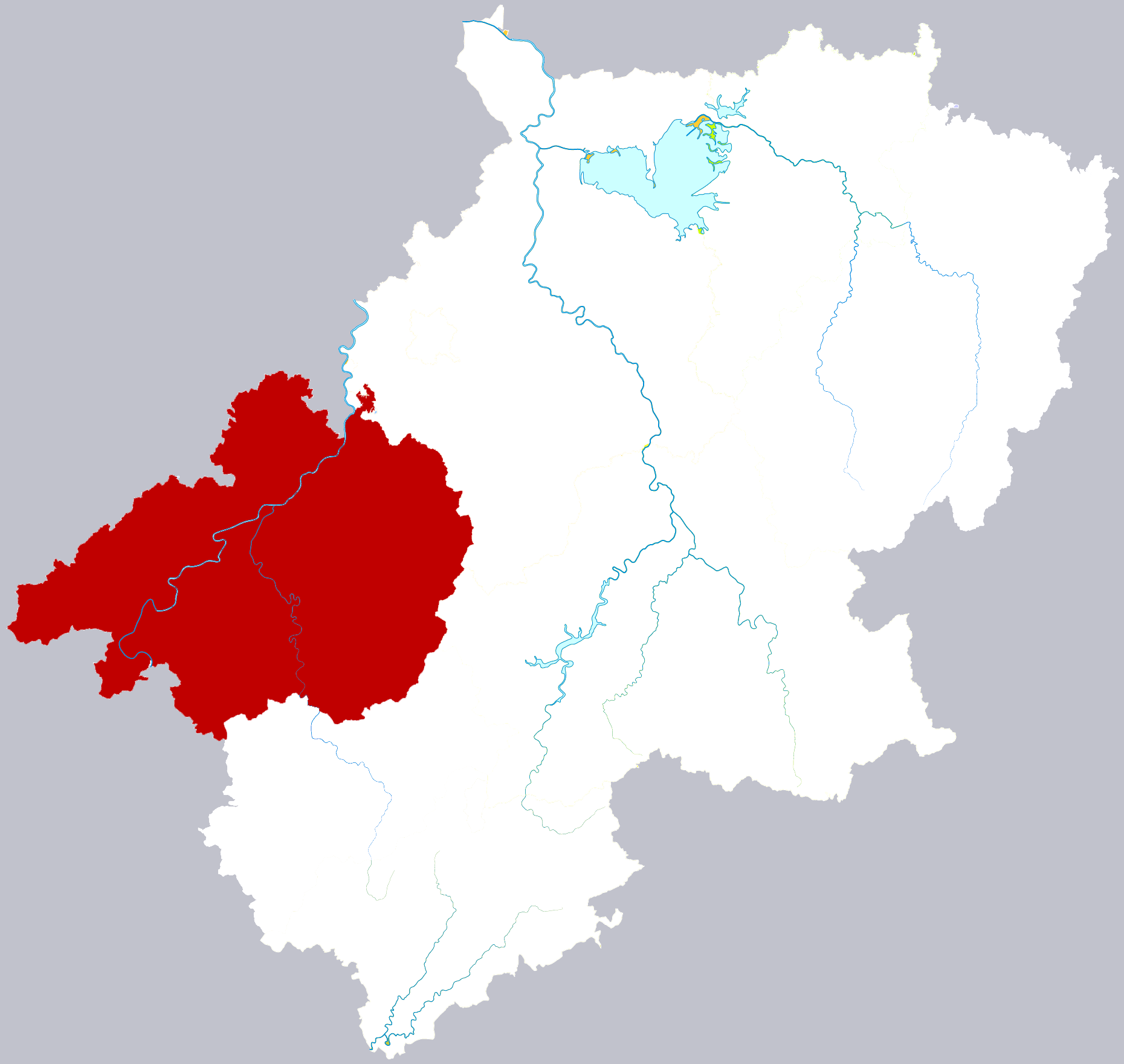 Location of Jing county in Xuancheng city, China